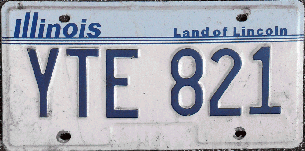 1987 Illinois license plate